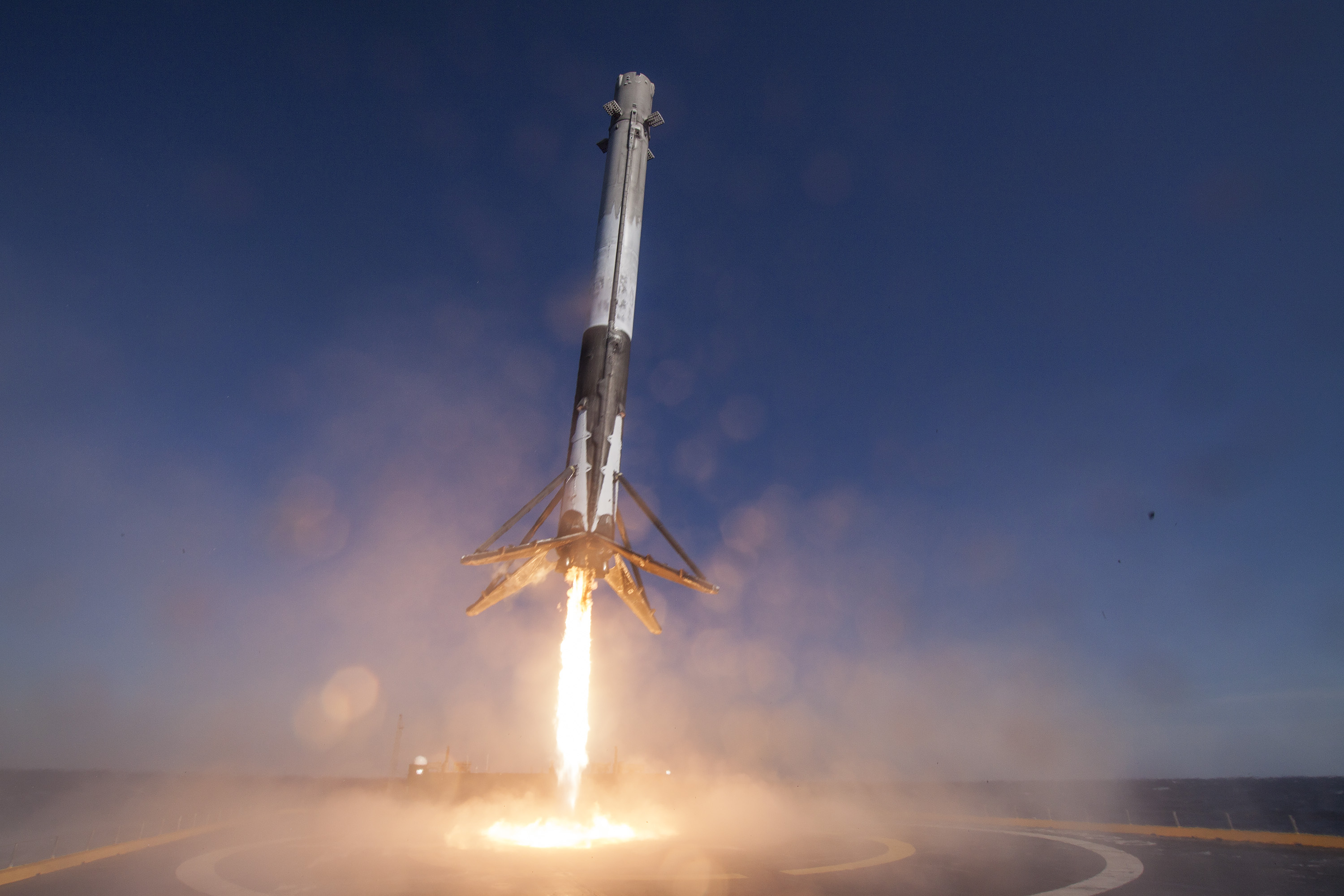 First stage of the SpaceX Falcon 9 rocket successfully landing on the commissioned Autonomous Spaceport Drone Ship for the first time on April 9. The mission, CRS-8, also launched the Dragon spacecraft to orbit.